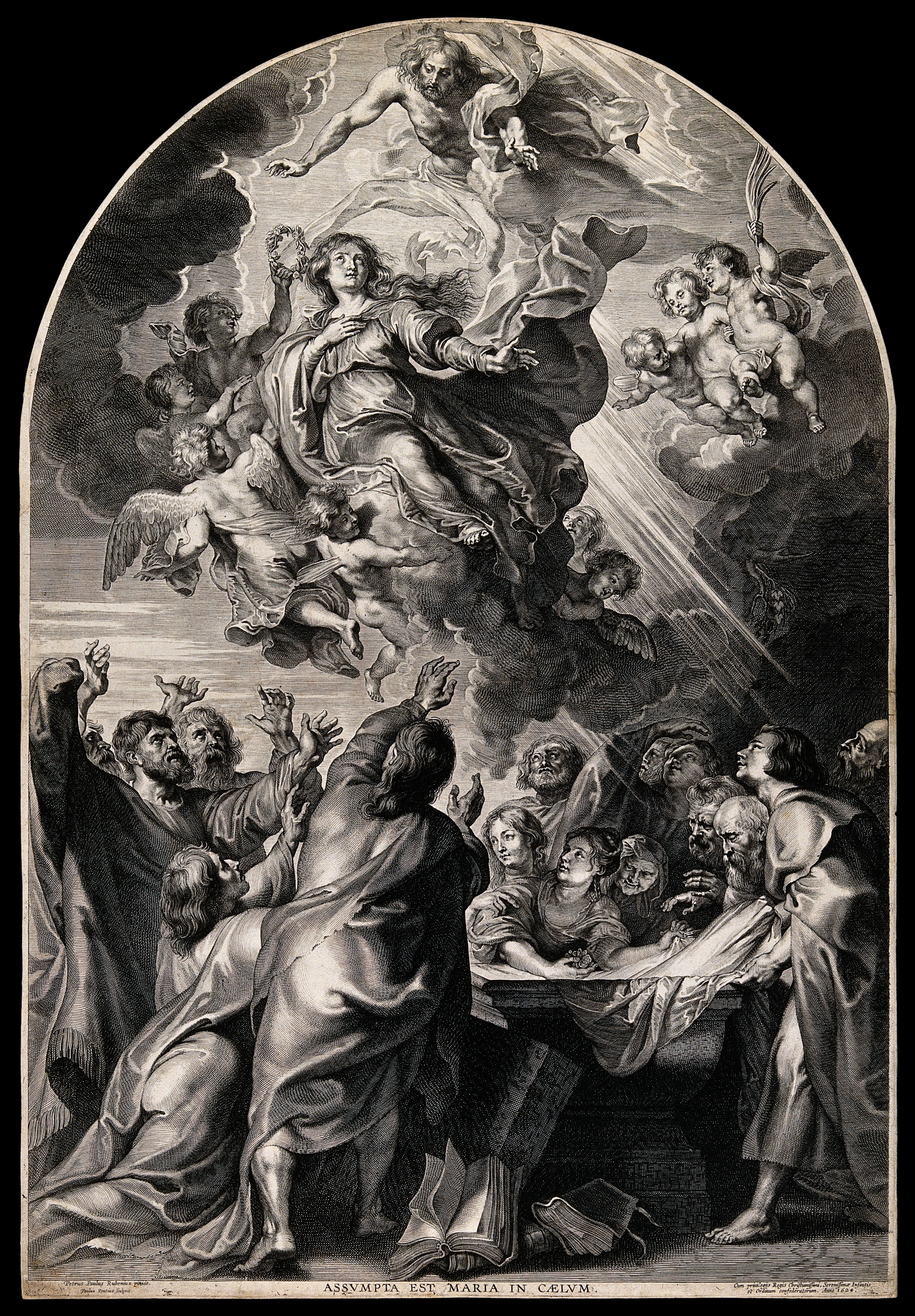 The Assumption of the Virgin. Engraving by P. Pontius, 1624, after P.P. Rubens. Iconographic Collections Keywords: Jesus Christ; Peter Paul Rubens; Mary; Paulus Pontius